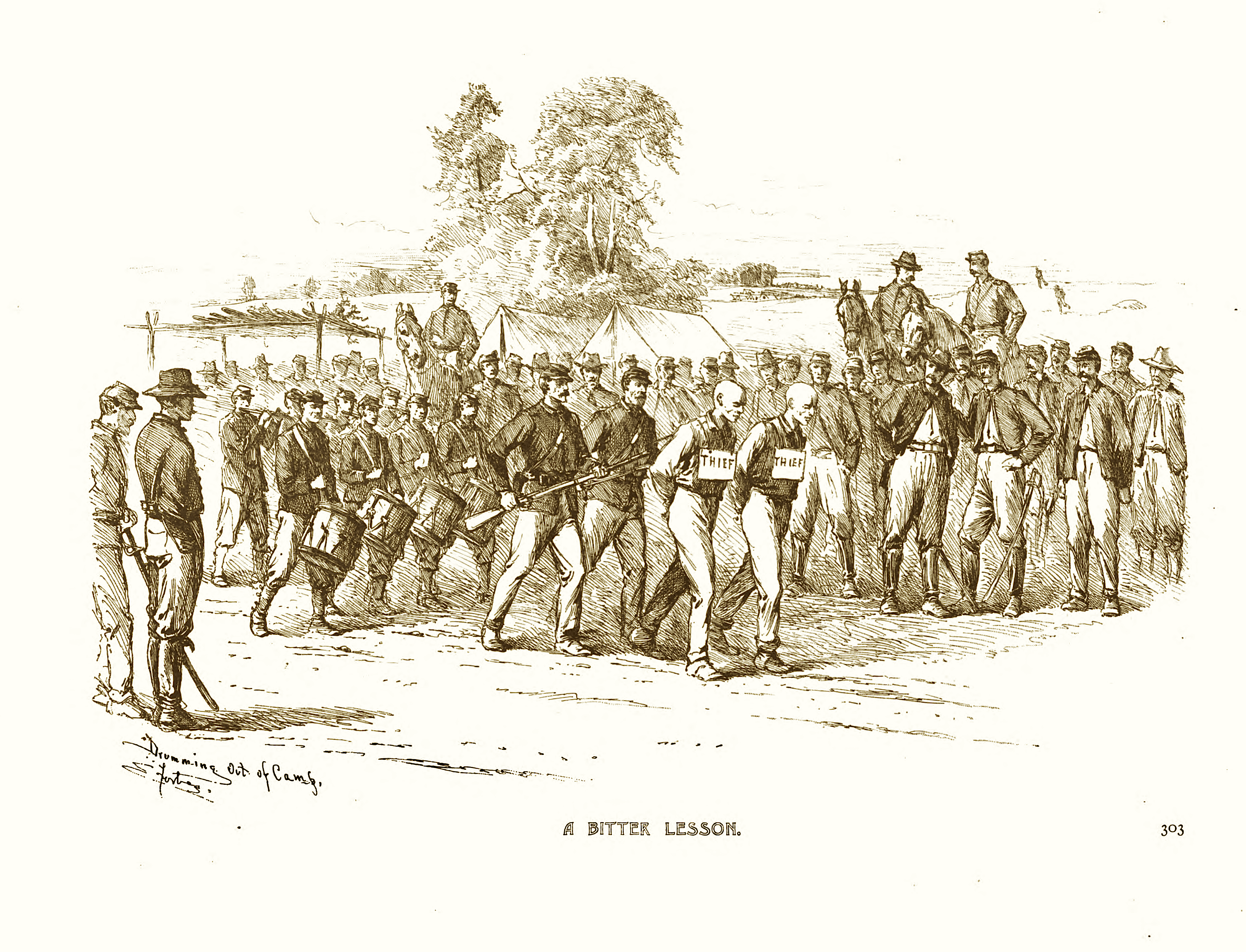 Based on the author's contemporary sketch c.1863. Two soldier's a drummed out of the army for theft to the Rogue's March